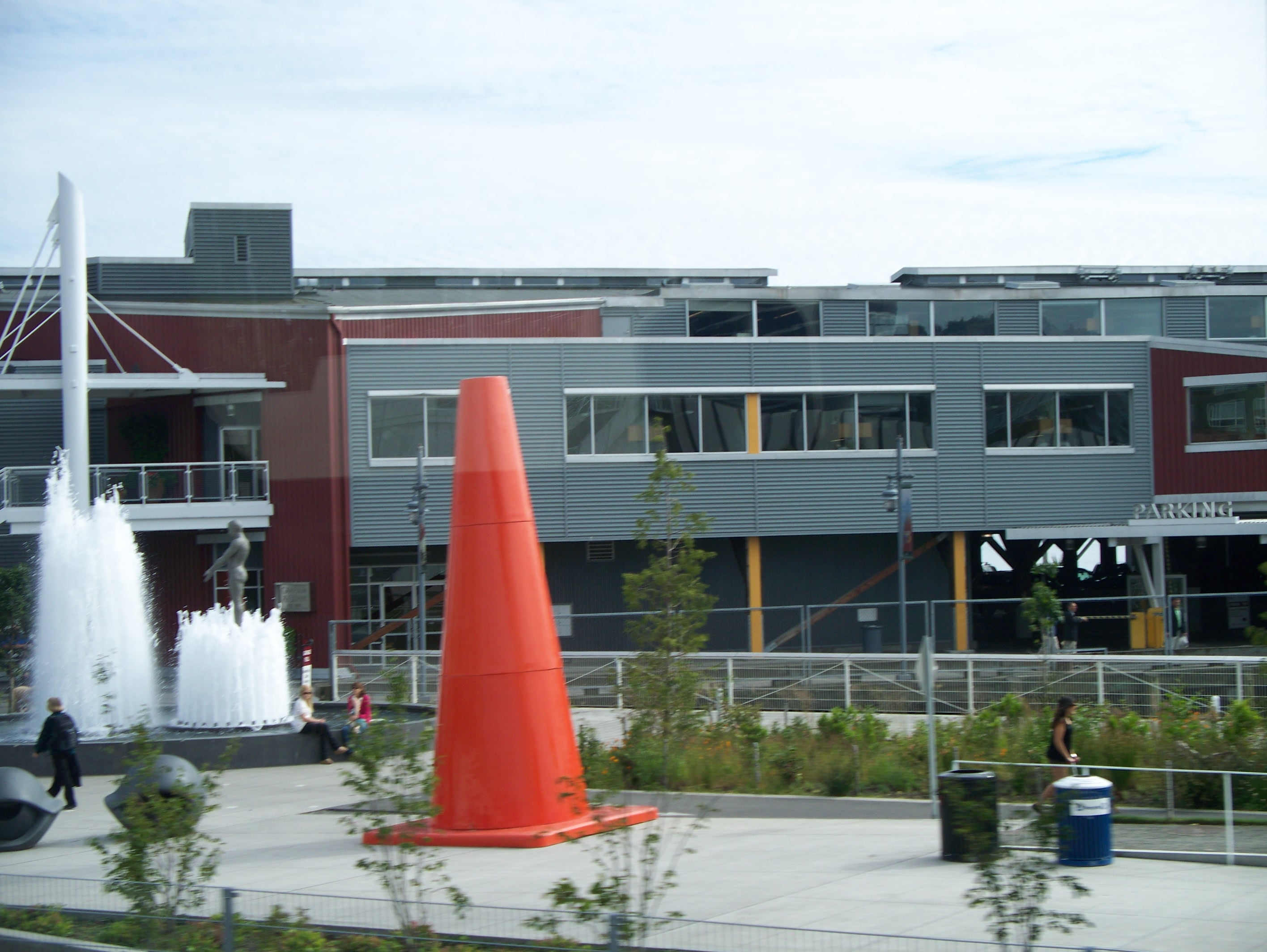 Giant Traffic Cone